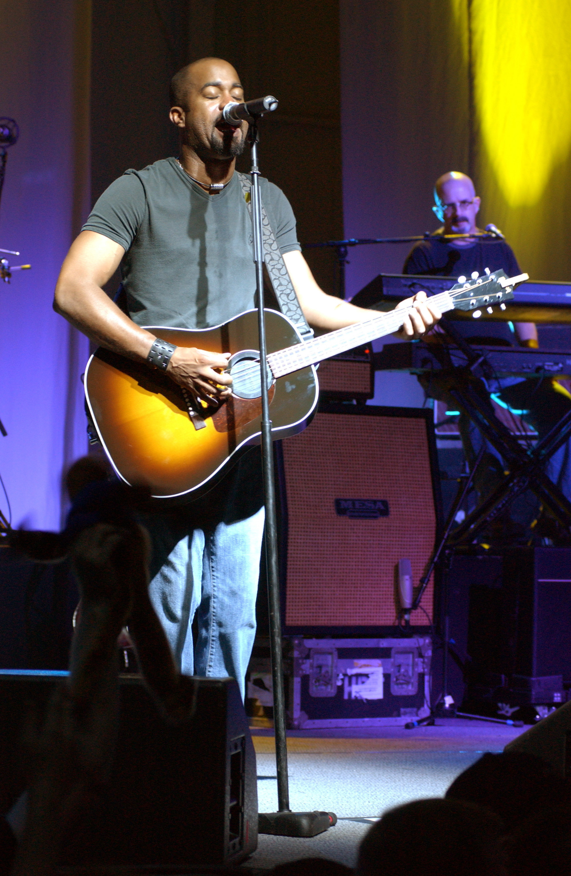 On stage, the famous Hootie and the Blowfish lead singer Darius performs during Operation Pacifc Greetings which also features the New England Patriot Cheerleaders and Air Force Reserve Band at Kunsan Air Base (AB), South Korea (ROK).